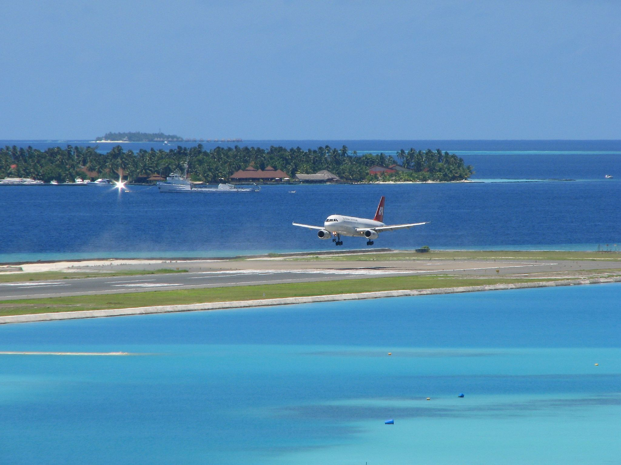 Indian Airlines Airbus A320 landing runway 18 at Male International Airport.